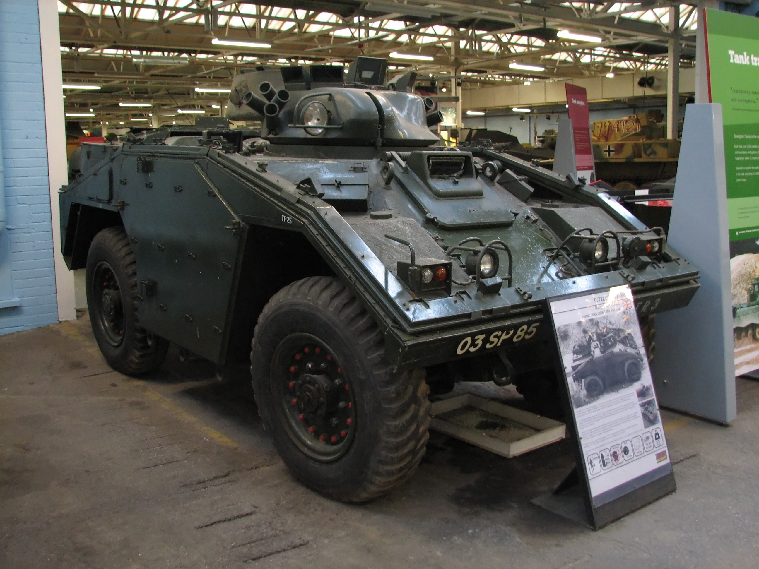 British FV722 Vixen prototype of the FV721 Fox armoured reconnaissance vehicle at Bovington Tank Museum